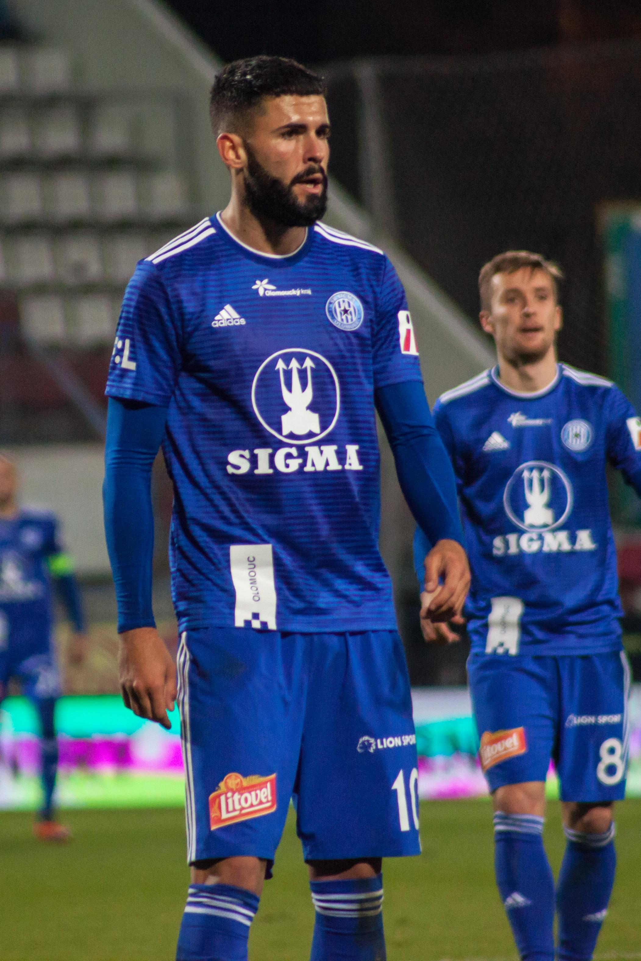 Jakub Yunis At Czech cup (MOL Cup) match SK Sigma Olomouc-FC Fastav Zlín played on 15 November 2018